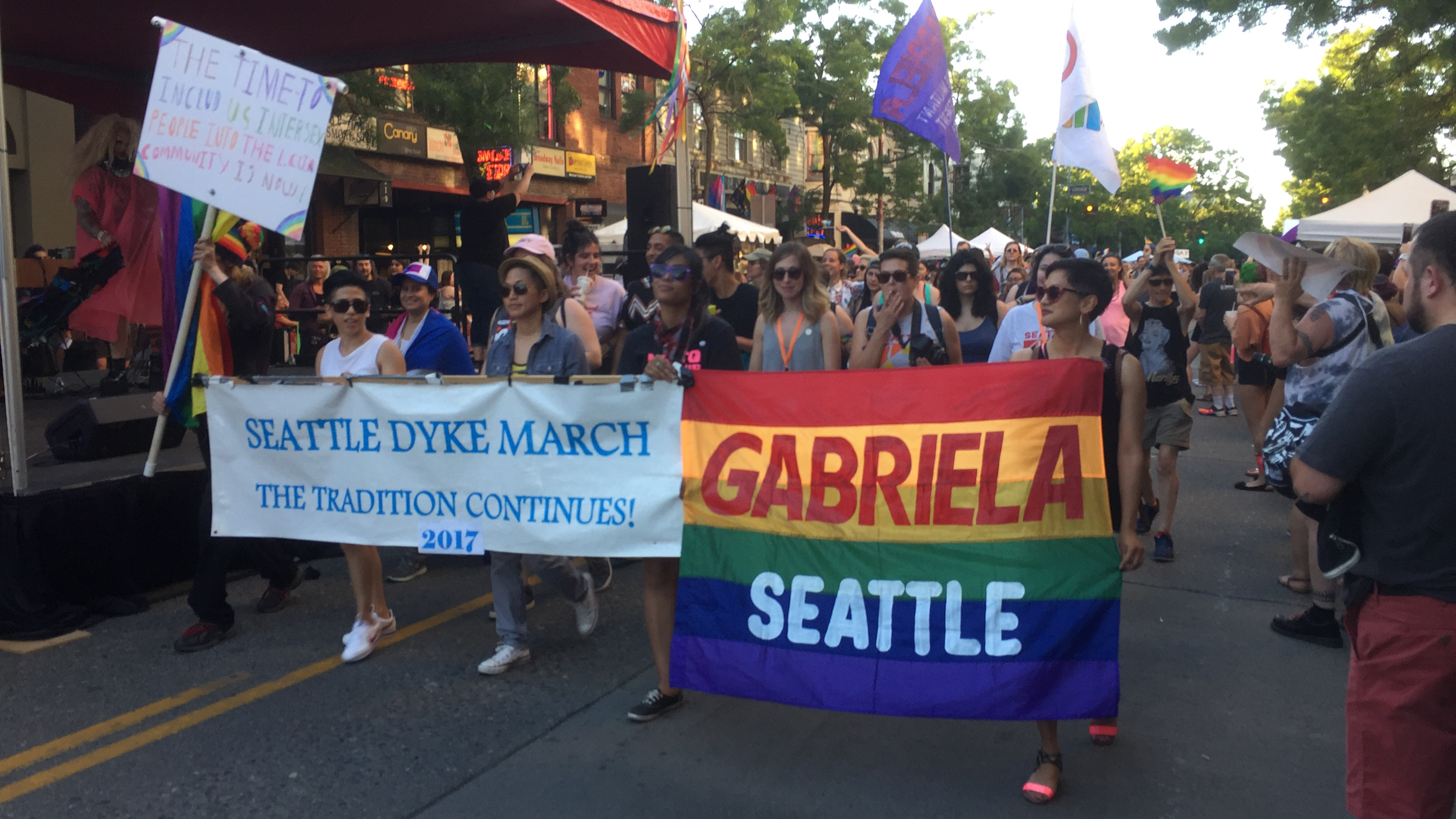 The 2017 Seattle Dyke March. Taken at Seattle's Capitol Hill. 中文（香港）: 2017年西雅圖女同志遊行，於西雅圖首都山 (Capitol Hill) 地區拍攝。